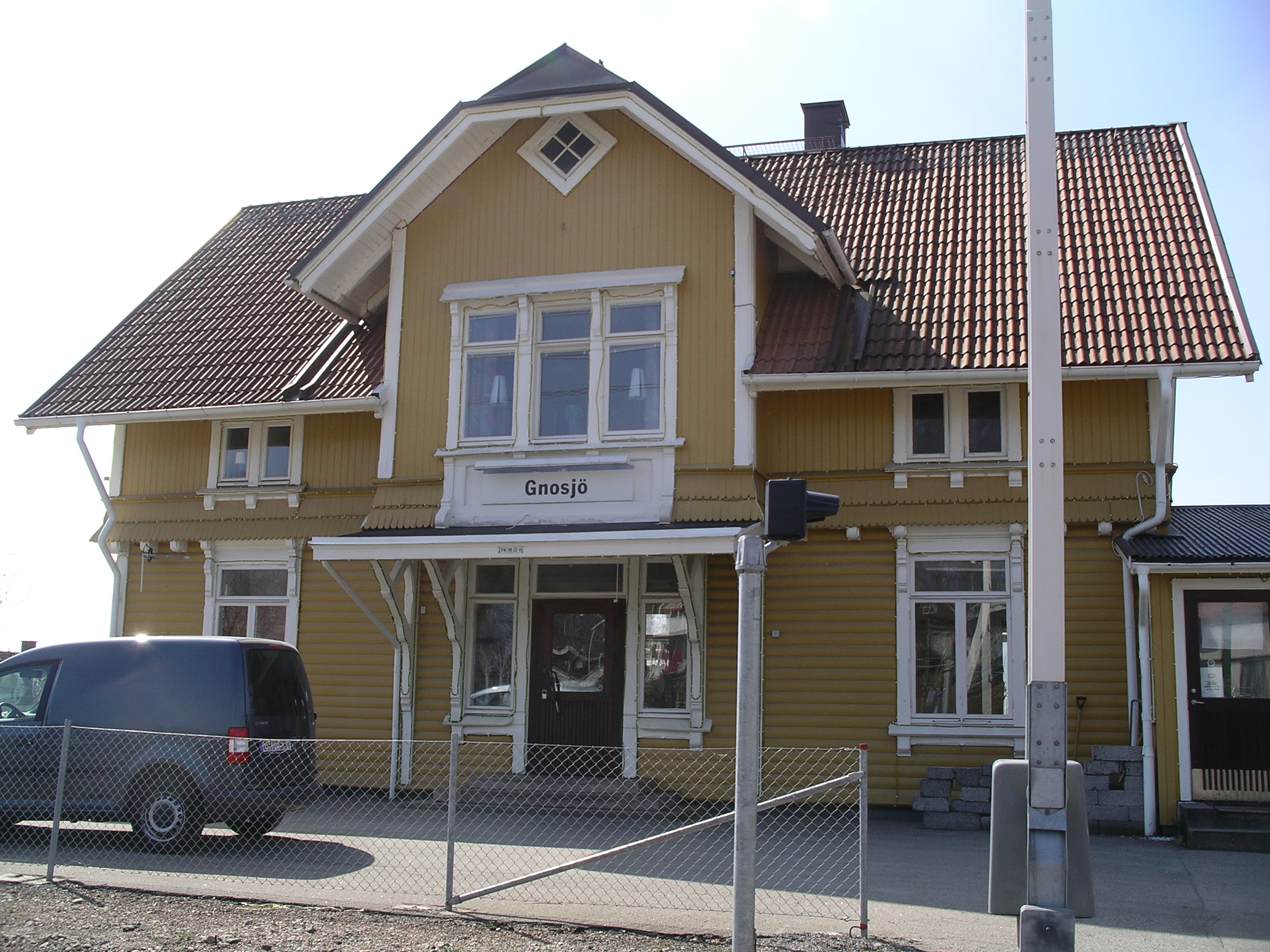 Railway station Gnosjö in Sweden